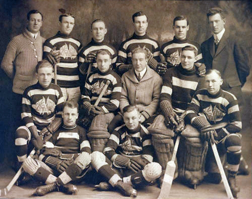 Portrait of the Ottawa Senators Back Row: Cosy Dolan (trainer), Jack Darragh, Hamby Shore, Art Ross, Horace Merrill, Frank Shaughnessy (manager) Middle Row: Angus Duford, Sammy Hebert (goalie), Alf Smith (coach), Clint Benedict, Leth Graham Front Row (seated): Eddie Gerard (left), Punch Broadbent